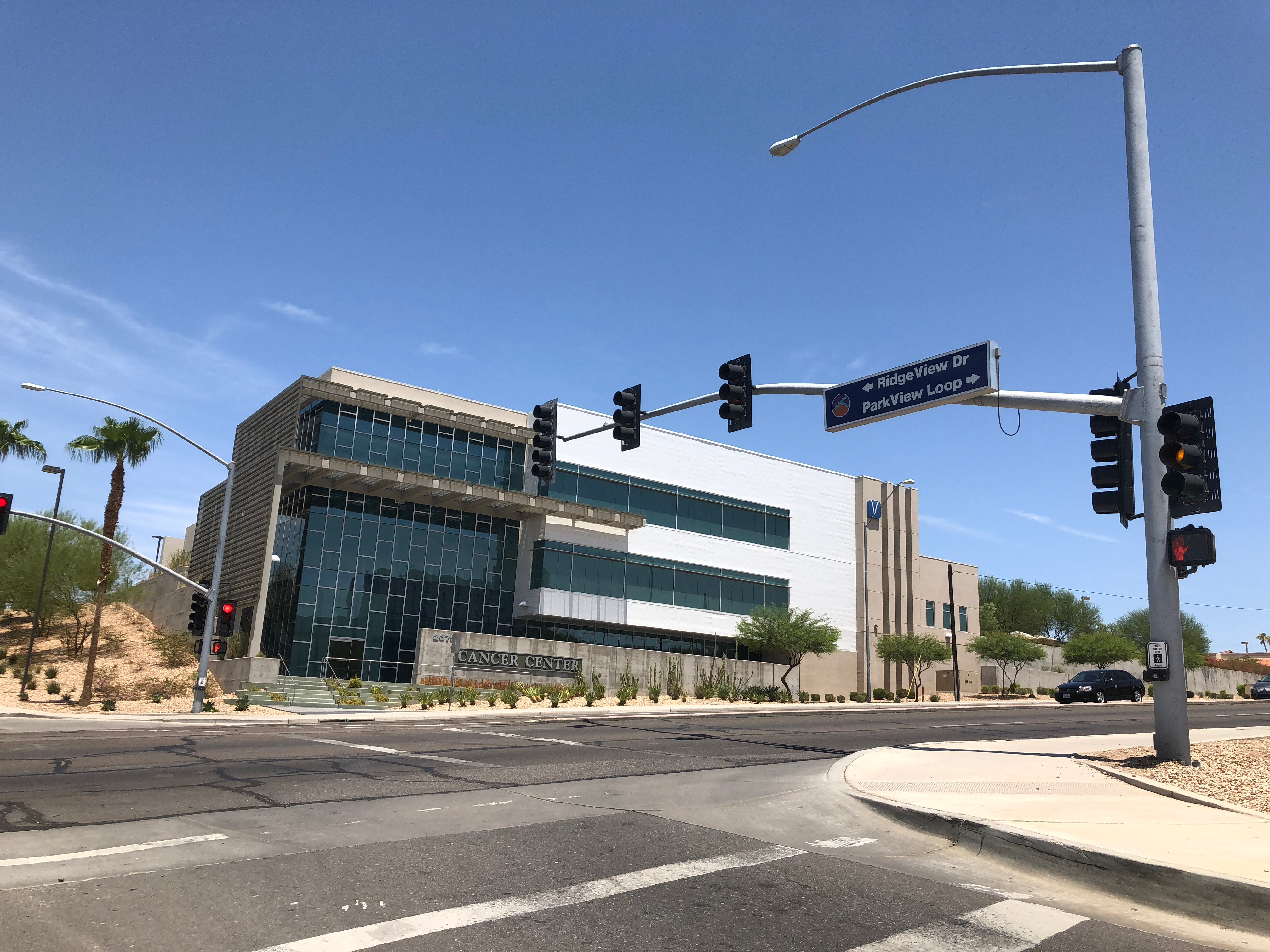 Cancer Center at Yuma Regional Medical Center on 25/7/2018